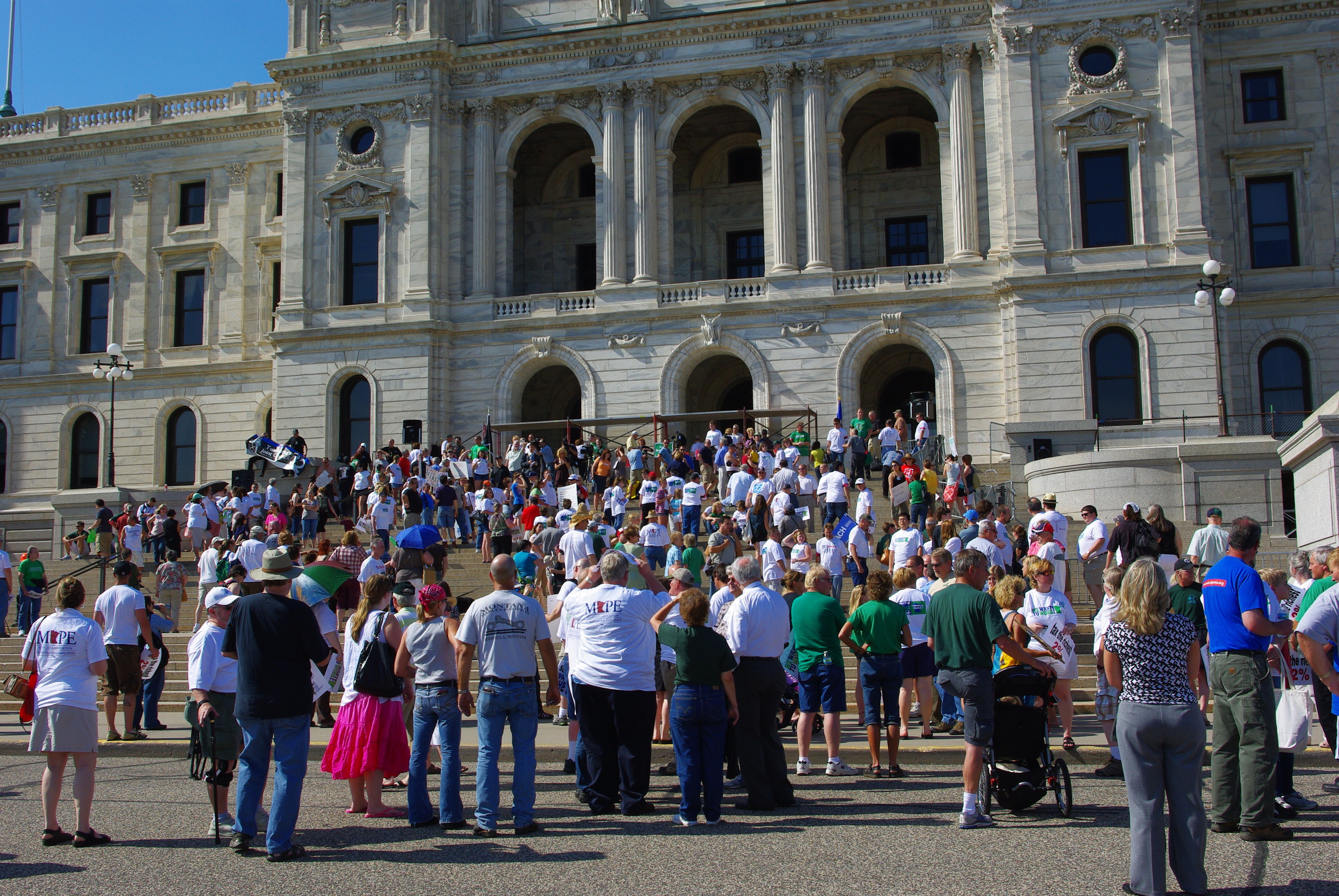 Protest at the MN State Capitol regarding the state shutdown